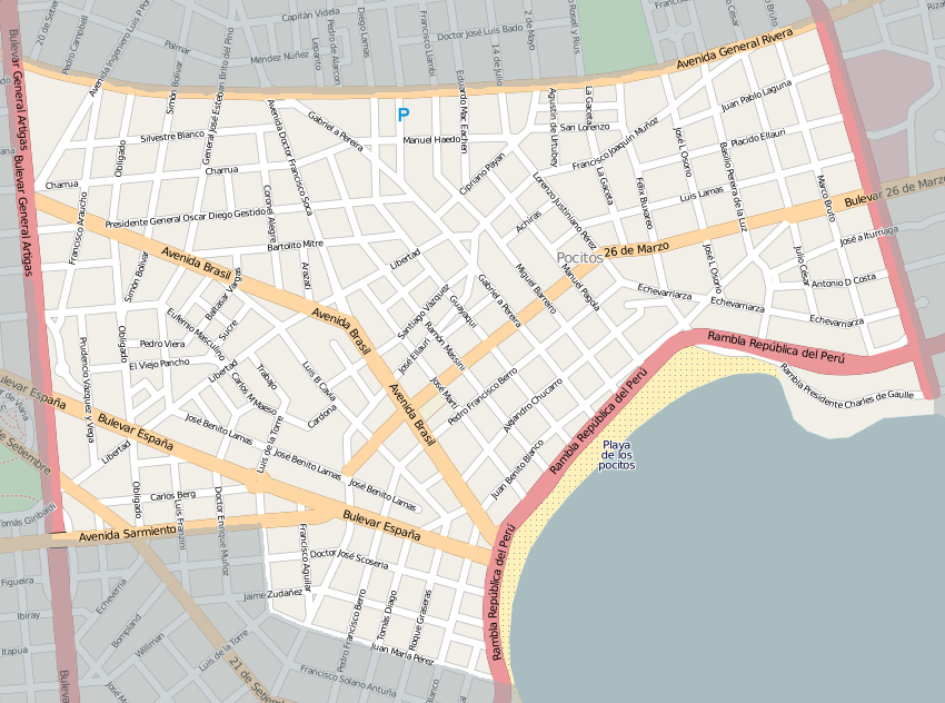 Street map of Pocitos, Montevideo, exported from OpenStreetMap. I added shading to delimit the barrio. This map may be incomplete, and may contain errors. Don't rely solely on it for navigation.